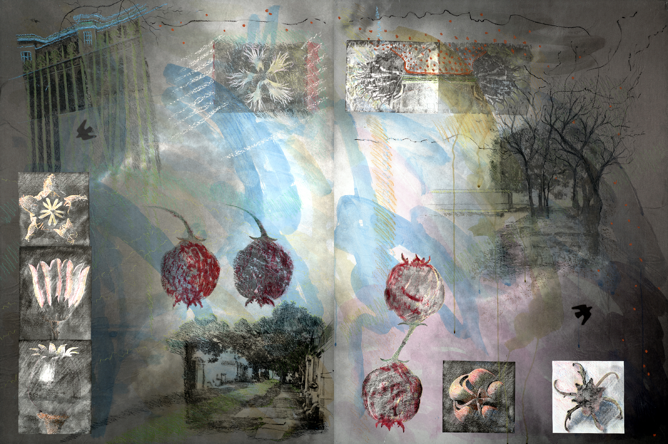 Two Birds, 1999. © Mary Curtis Ratcliff. Oil pastel, acrylic, colored pencil, collage and image transfer on paper, mounted on wooden panel. 44 3/8 x 66 1/2 x 2 3/4 in.